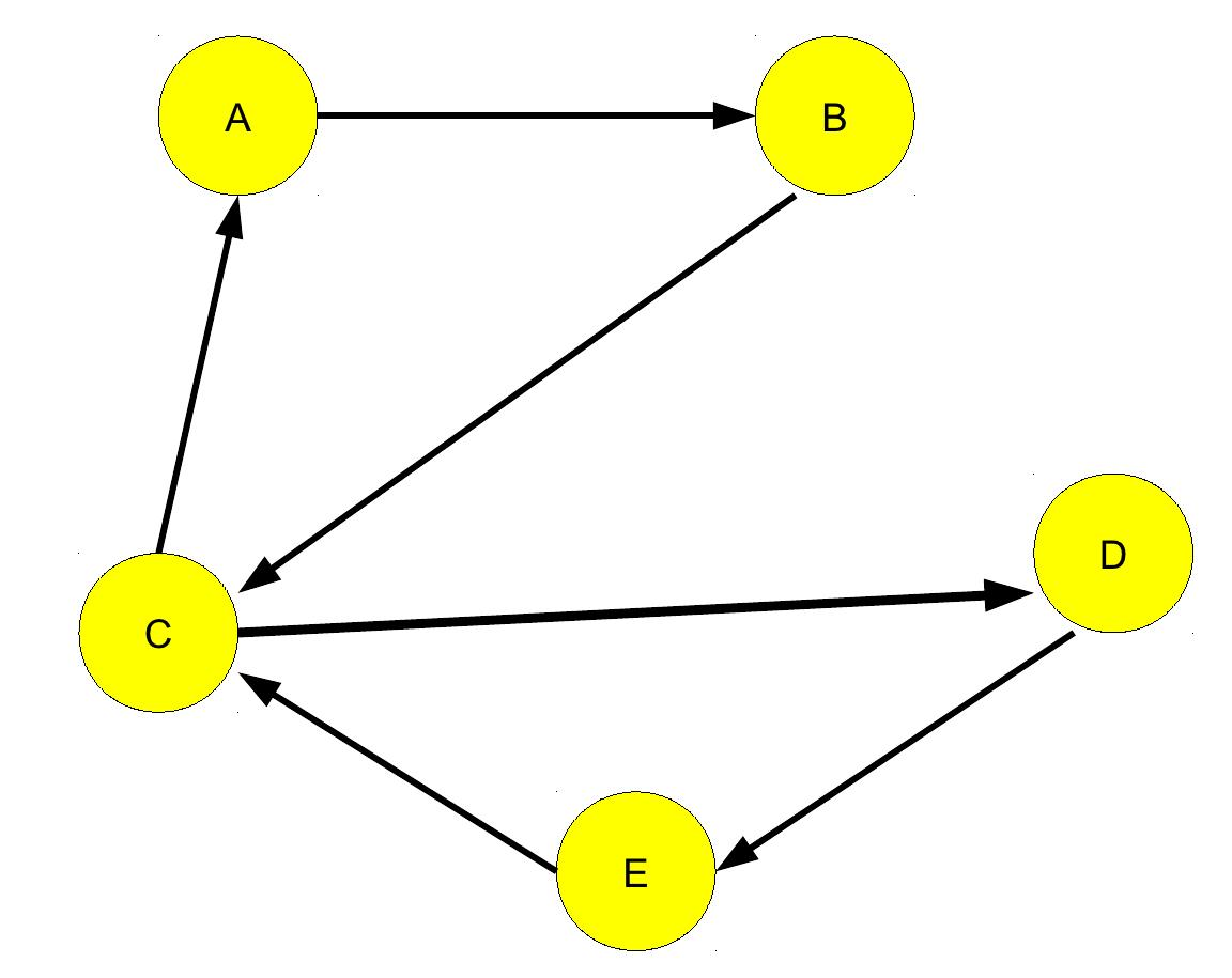 strong connected graph